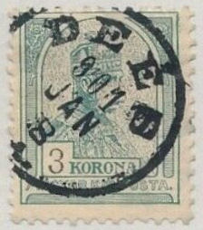 Postage stamp of the Kindom of Hungary issued 1900, canceled in Deés (now Dej, Romania) 8 January 1901